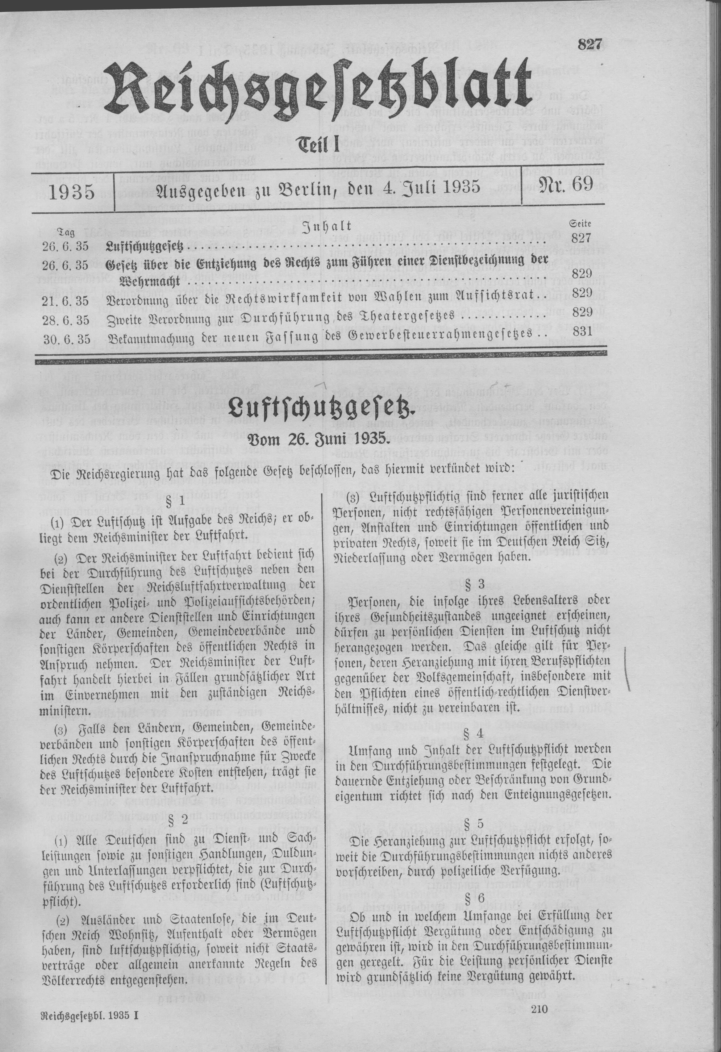 Scan from the Imperial Law Gazette of Germany, 1935, part 1